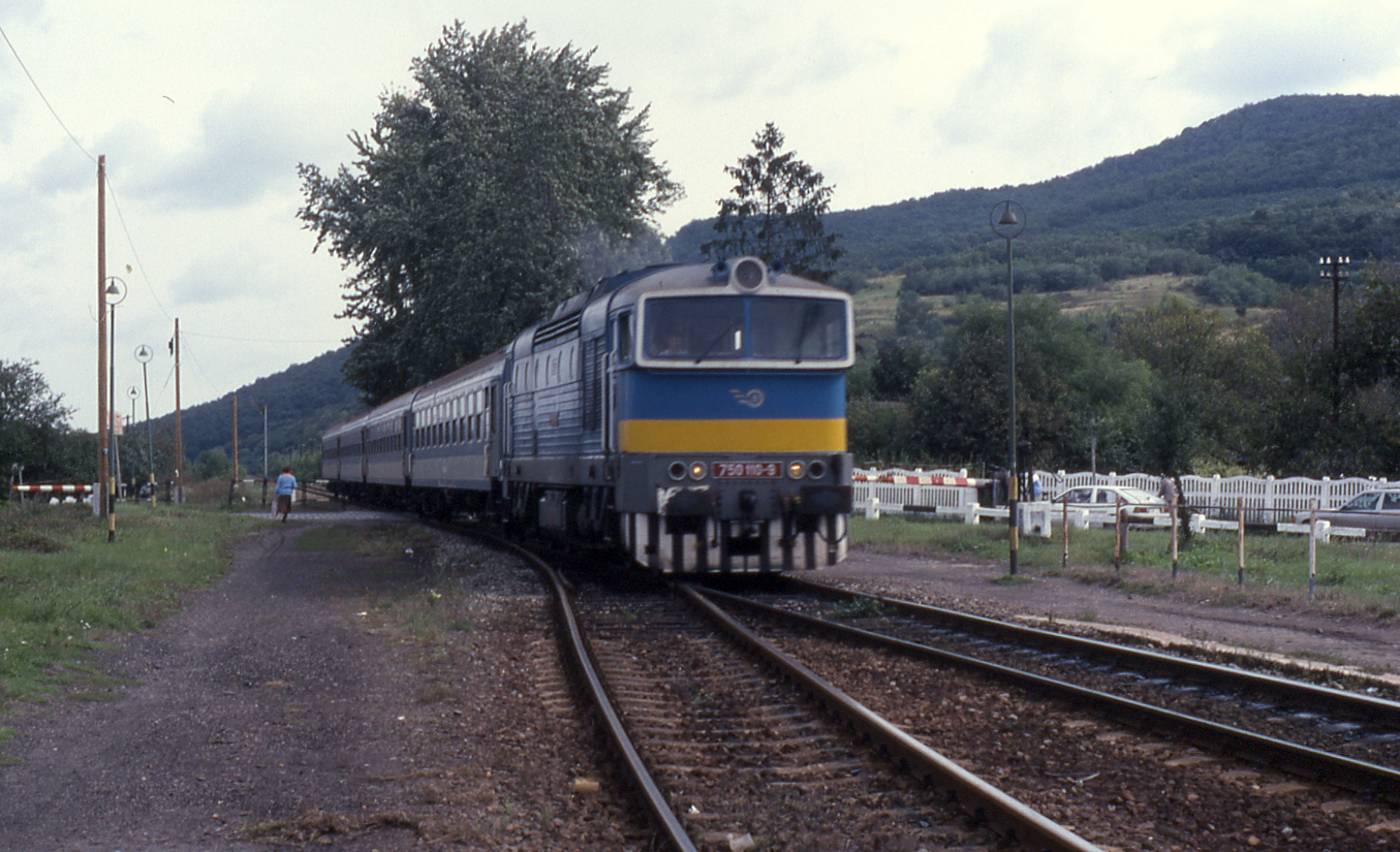 Slovakian Railways (ŽSR) no. 750.110 is seen passing through Tar on late running train R395 "Urpín", 06:44 Banská Bystrica to Budapest Keleti pu. on 15 September 1996. Class 750s were regular on this train over Hungarian tracks as far as Hatvan where they were swapped over to MÁV electric haulage through to Budapest. This cross border route via Somosköújfalu and Fiľiakovo lost its passenger service altogether in 2011.